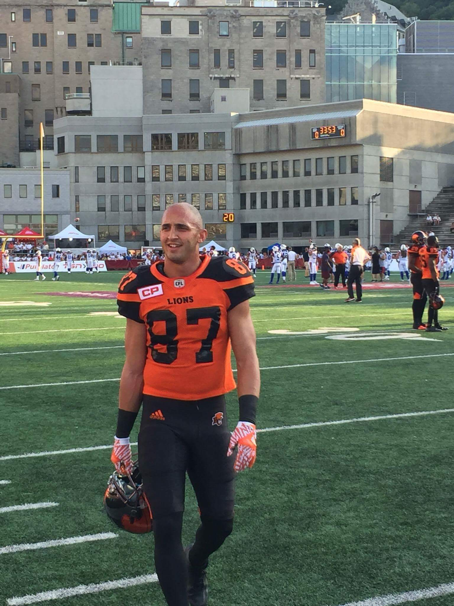 Iannuzzi BC Lions vs Montreal 2016